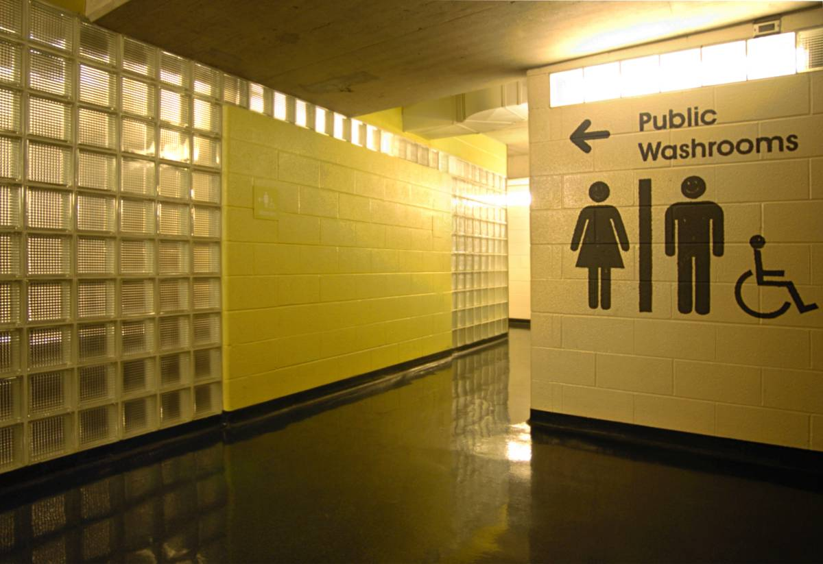 Urbeach washroom/changeroom architecture: glass-brick labyrinth I took this picture of the Dundas Square washroom/changeroom facility to show the modern architectural use of glass brick, in the design of the labyrinth, to allow an open concept design (light passage, and open-air passage) while preserving privacy (gender privacy, i.e. obscuration of vision by glass brick). This picture is an extended dynamic range image made by combining differently exposed pictures of the same subject matter. The differently exposed images were captured on a Nikon D2h. License: Copyright (c) 2004, Steve Mann. Permission is granted to copy, distribute and/or modify this experience under the terms of the ePi Lab Shared Experience License, Version 1.0 or any later version published by the EyeTap Personal Imaging Laboratory. Full resolution version can be found in link from